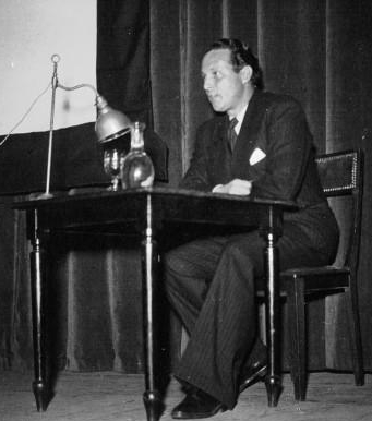 French aviator Jean Mermoz (1901-1936) giving a talk in 1935.